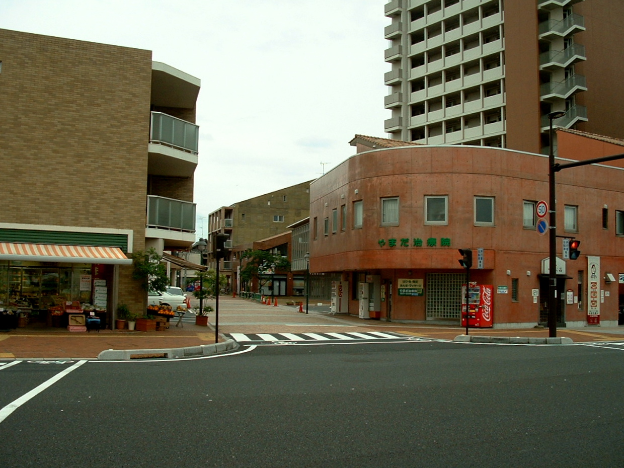 Urban regeneration district in 3-chome, Chuo-cho, Ube City. Taken on 11 July 2010.